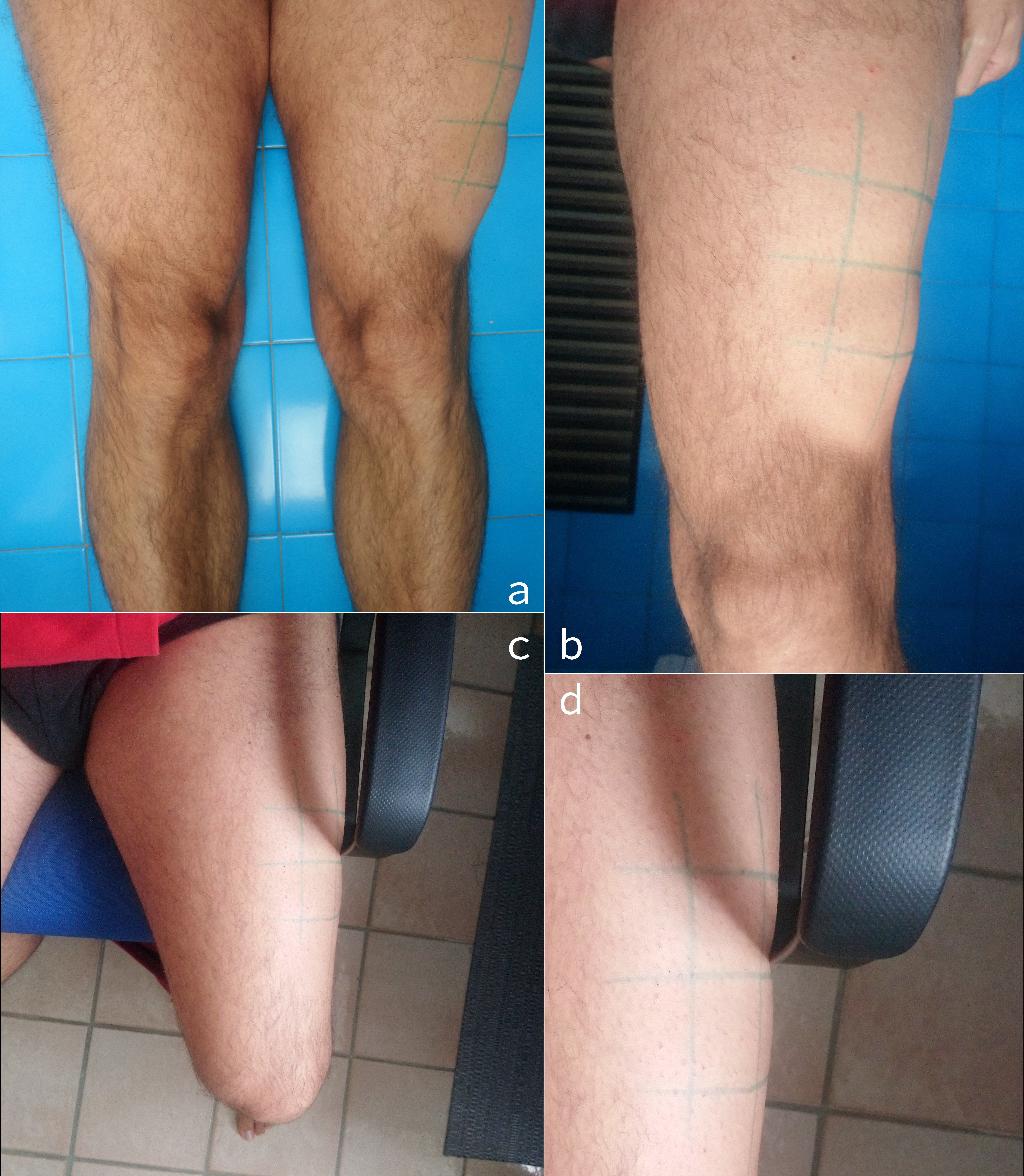 A case of lipoathrofia semicircularis developed in 36 years old male office worker due to prolonged pressure on the side of the thigh by the thin metal support of the chair's armrest. The sitting position was slightly asymmetric, only affecting the left leg. The cause could be clearly identified, as symptoms developed within 2 months after switching to a home office setup, which also excluded tight clothing or strong electromagnetic fields. The chair model is the very common Ikea Markus, featuring particularly prominent armrest stands.